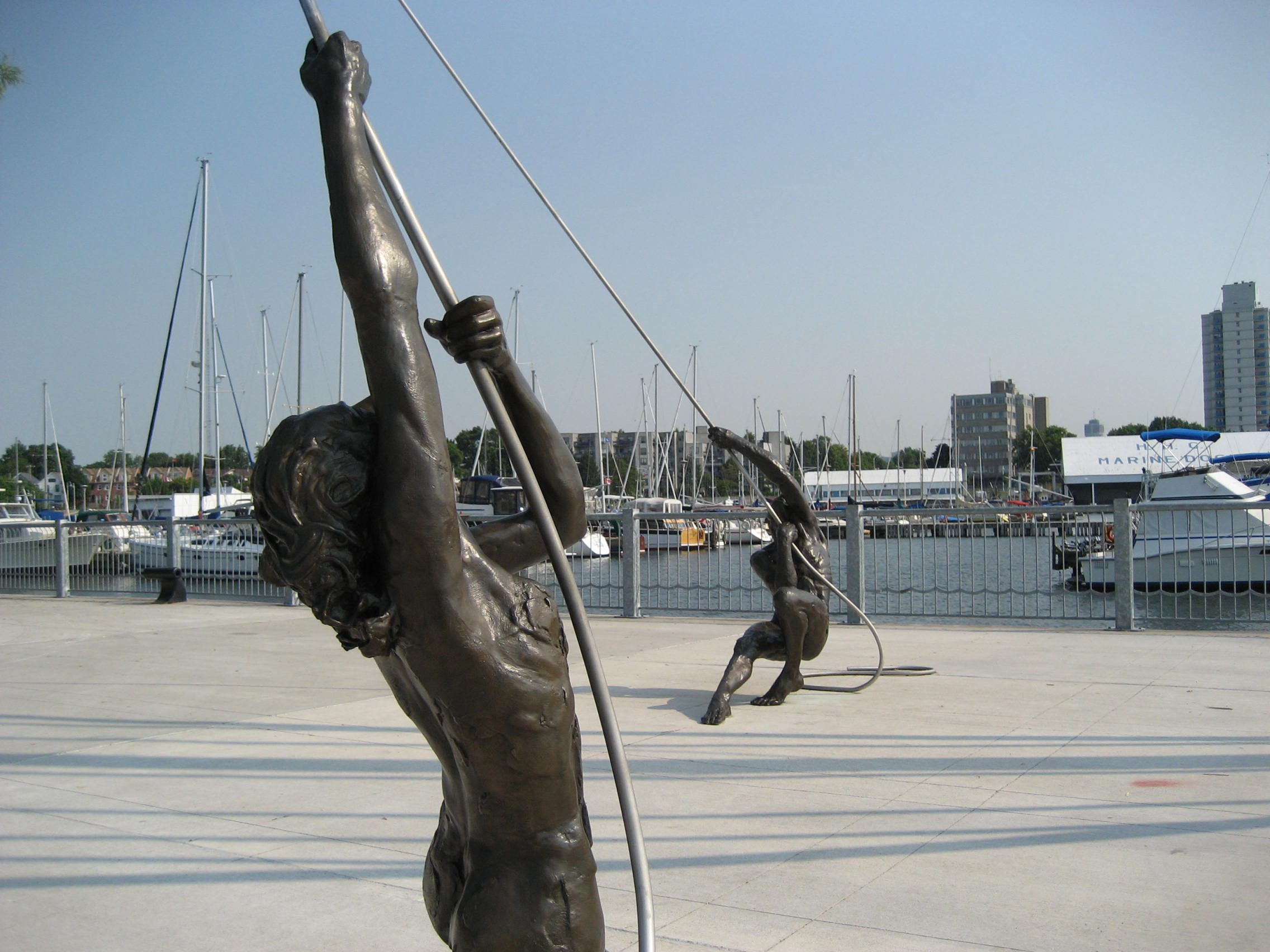 Sculptures at Pier 8, Hamilton, Ontario